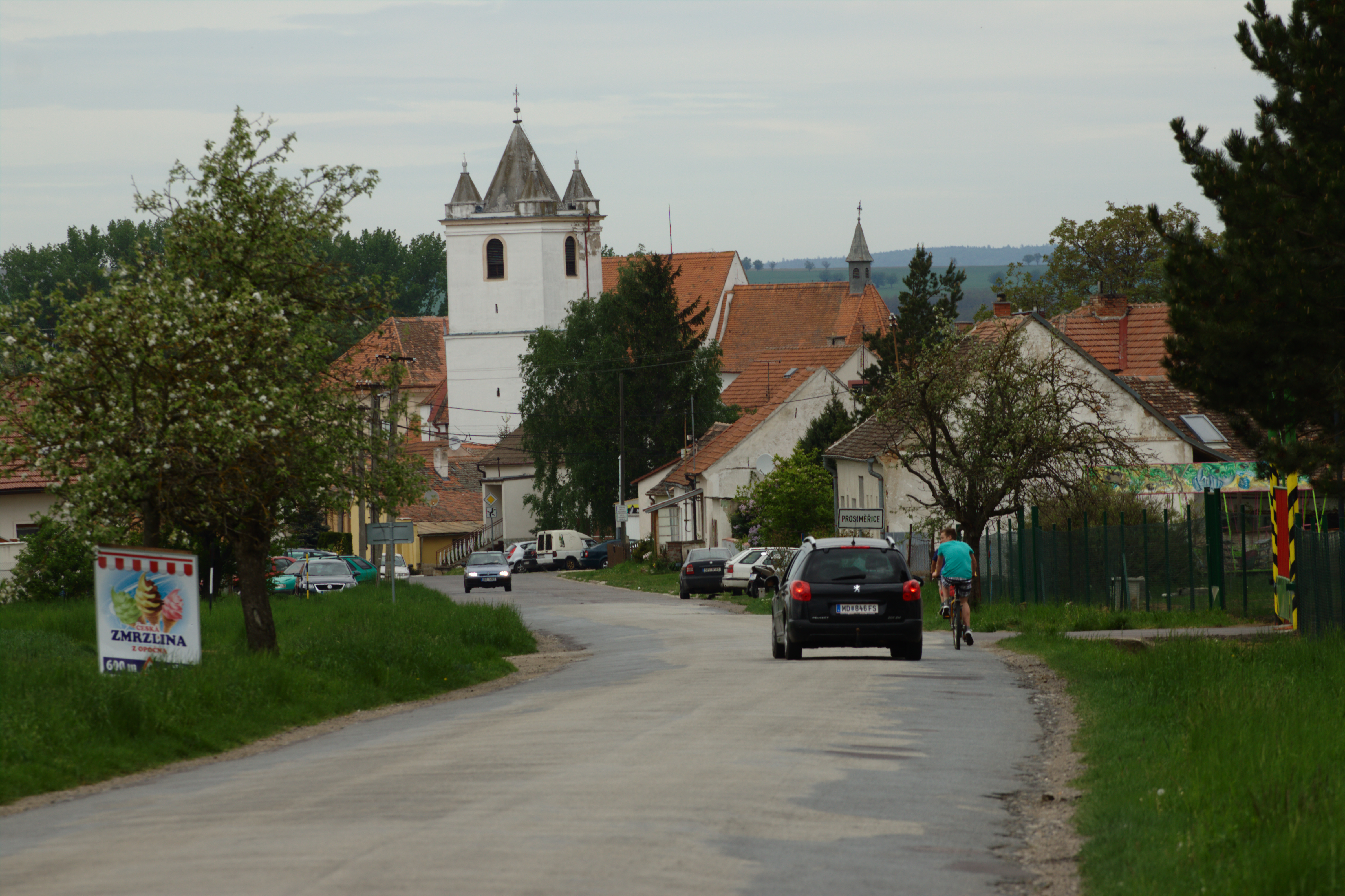 A road to the village of Prosiměřice, South Moravian Region, CZ